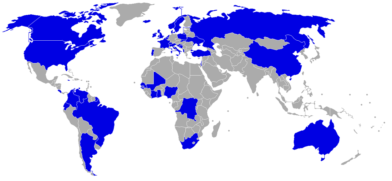 Location of players (highlighted in blue) capped by their international country while playing for Everton Football Club.